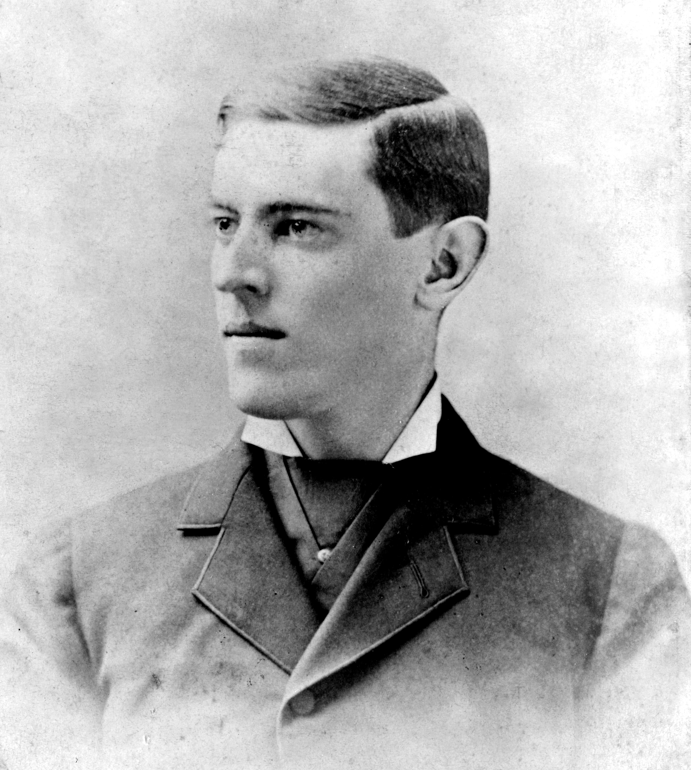 Albumen Cabinet Card of Woodrow Wilson head and shoulders portrait, facing left